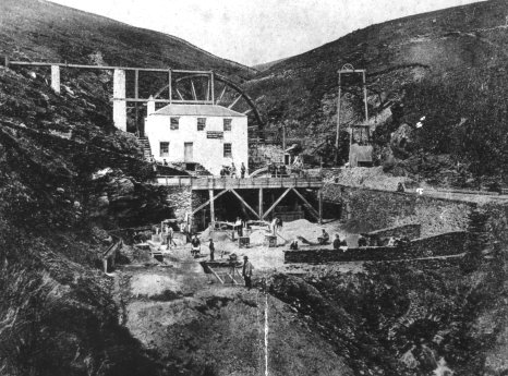 A picture of the Great Snaefell Mine, circa 1900.